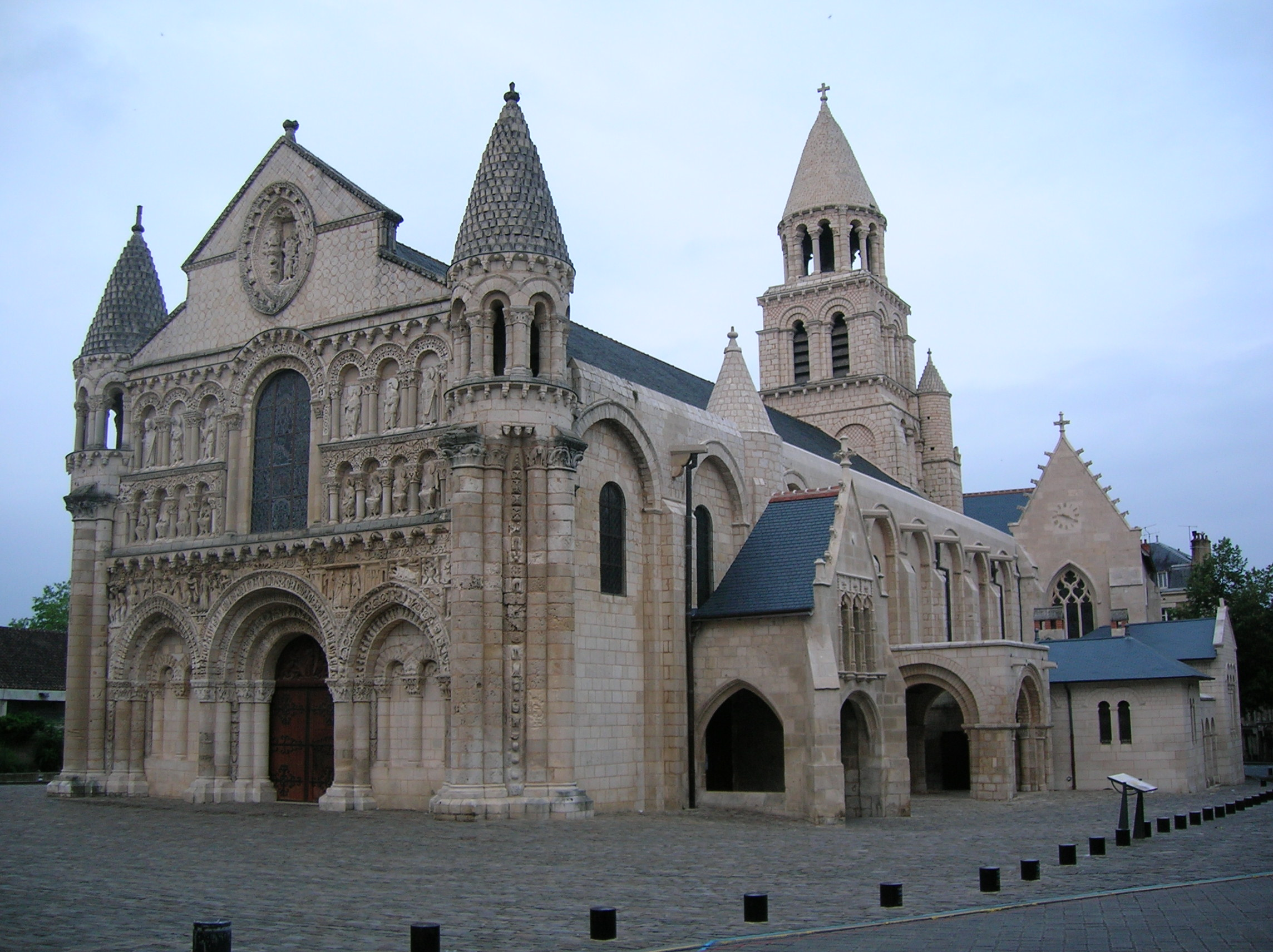 Notre-Dame la Grande in Poitiers (France).